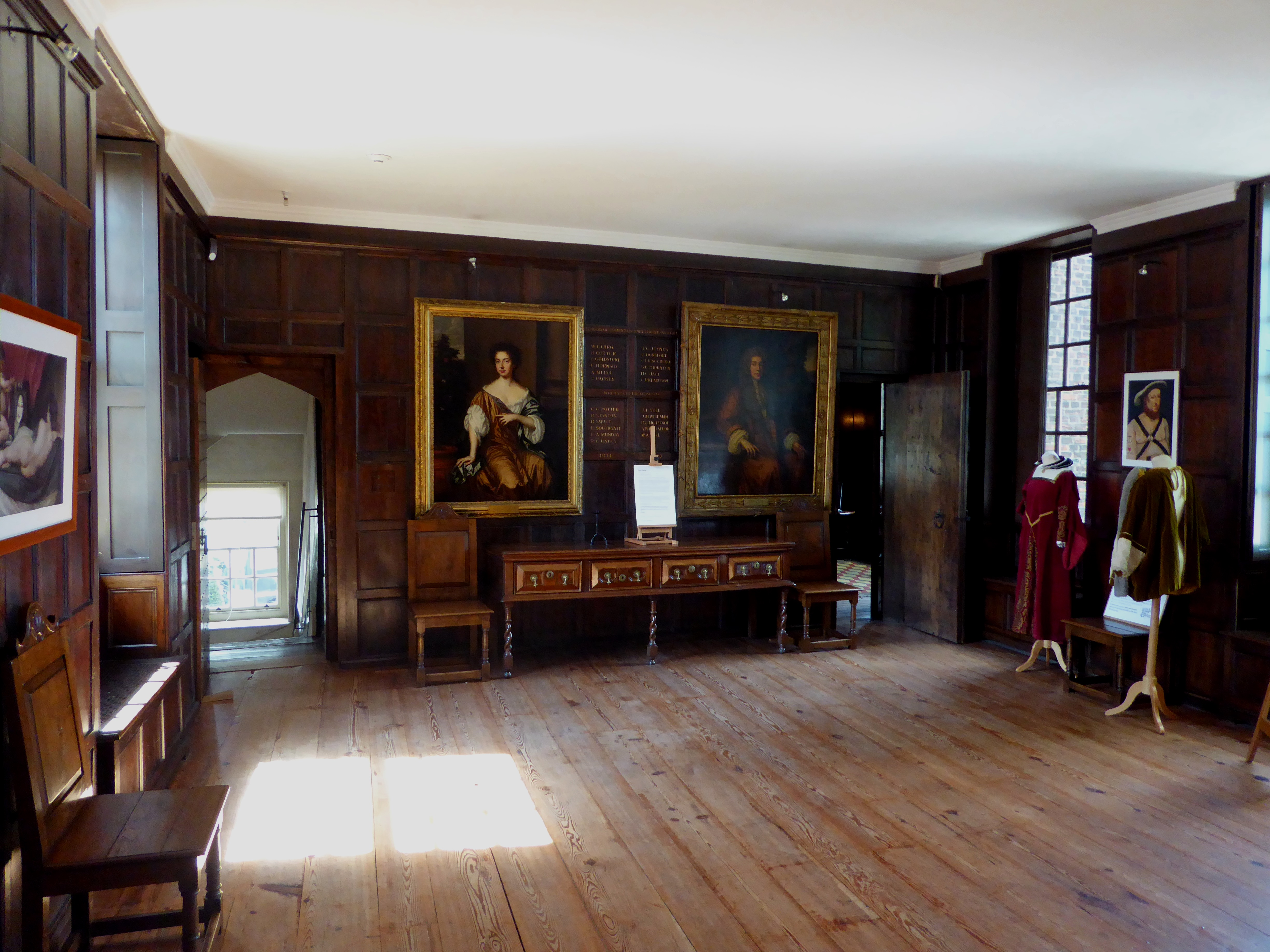 The Great Chamber of Sutton House, Hackney Central, London Borough of Hackney.